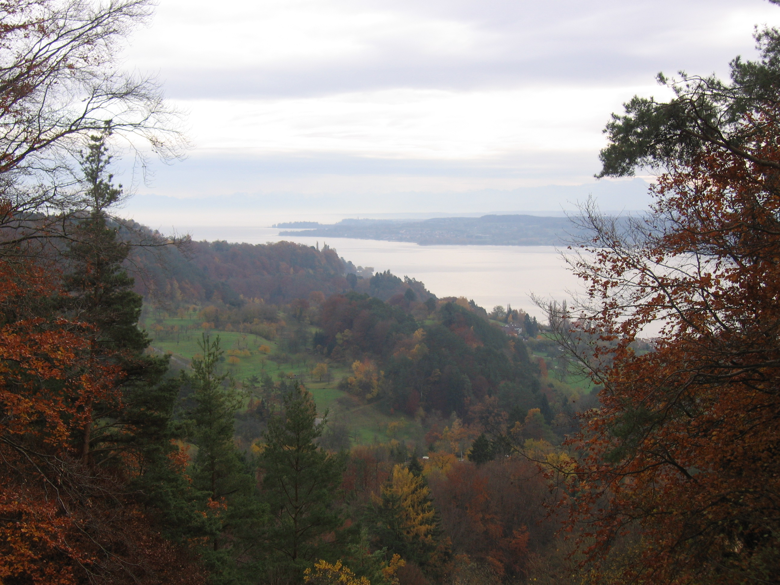 Germany - Baden-Württemberg - Lake Constance: Lake Überlingen